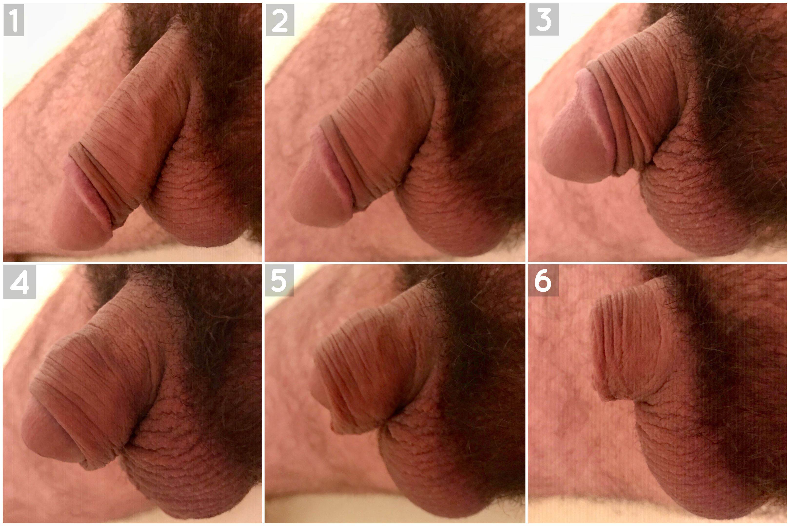 The penis and scrotum can contract involuntarily in reaction to cold temperatures or nervousness, referred to by the slang term "shrinkage", due to the body reducing blood flow to its appendages as well as action by the cremaster muscle. This is generally a normal and healthy function. During later shrinkage stages (4-6), the shaft skin covers the glans of this penis. This reinforces the fact that flaccid penile lengths vary greatly and are not a reliable measure. Notice that the scrotum is in a tense state due to the low temperature.